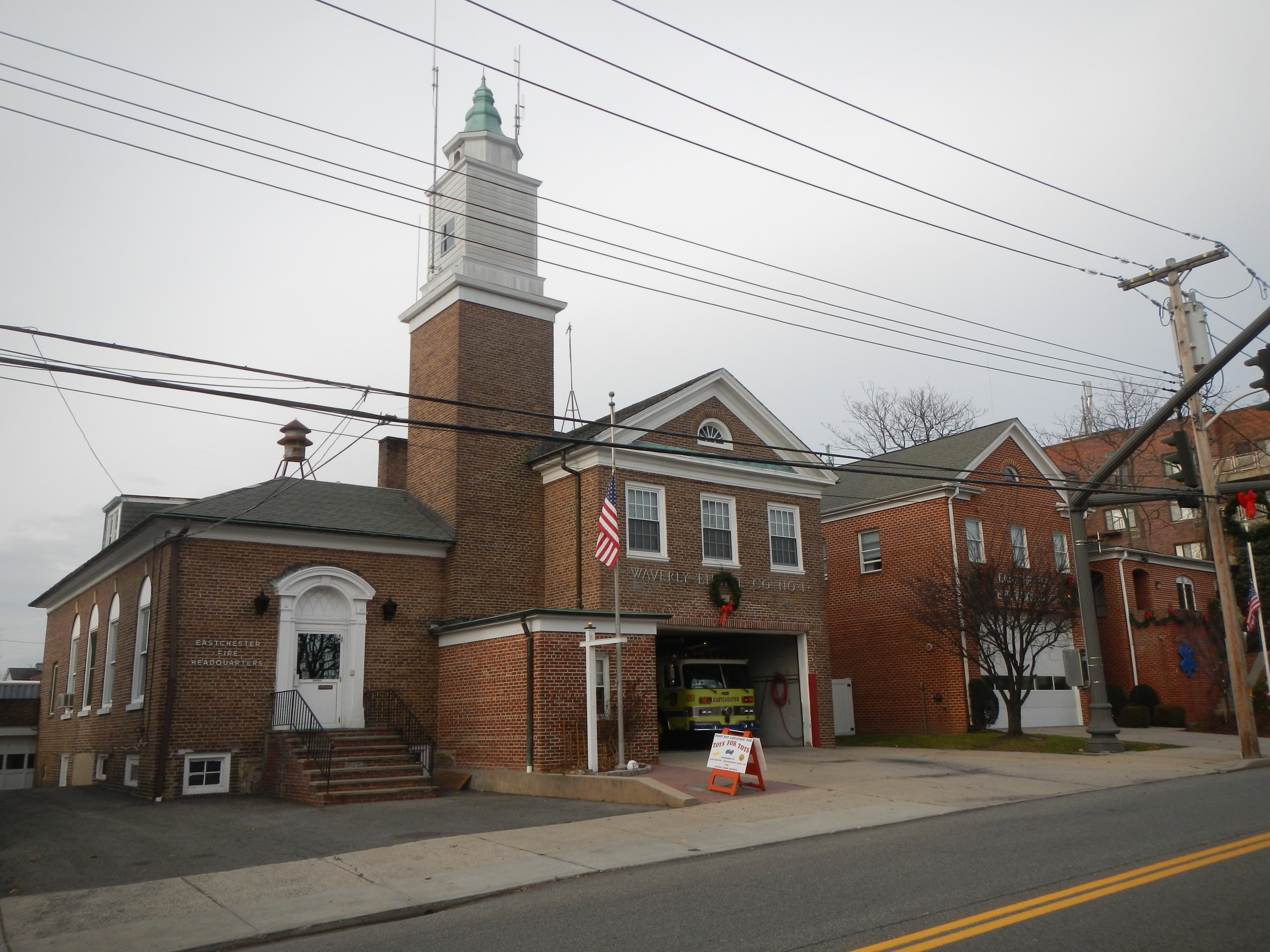 Looking north at firehouse on a cloudy afternoon.